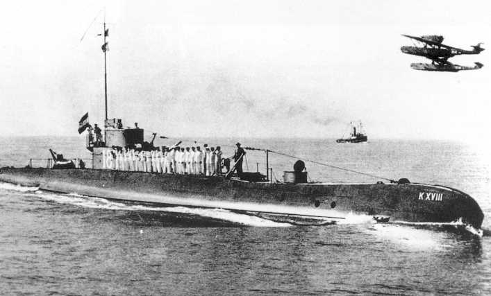 Dutch submarine Hr. Ms. K XVIII arriving in Soerabaja (Netherlands East Indies) on 11 July 1935